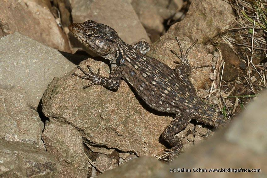 Lang's Crag Lizard (Pseudocordylus langi) near Sentinel in northern Drakensberg, South Africa - The row of pale blue spots behind the shoulder is distinctive. This one was just below 3000 m.